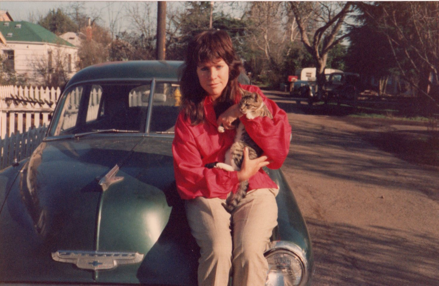 Photo of my sister Jan Kerouac in Eugene, 1983.Janet Michelle "Jan" Kerouac (February 16, 1952 – June 5, 1996) was an American writer and the only child of beat generation author Jack Kerouac and Joan Haverty Kerouac.